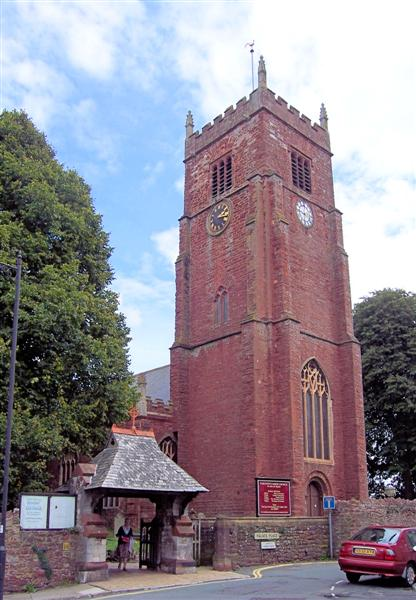 Paignton Parish Church.